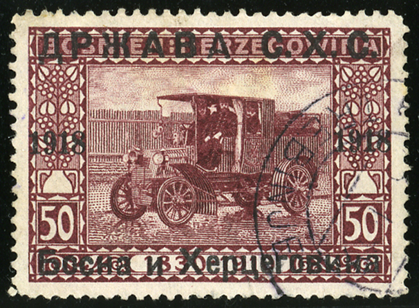 Stamp of Bosnia-Herzegovina 50 helller issue 1910, overprint State of Serbs, Croats and Slovenes, 1918, Bosnia and Herzegovina.